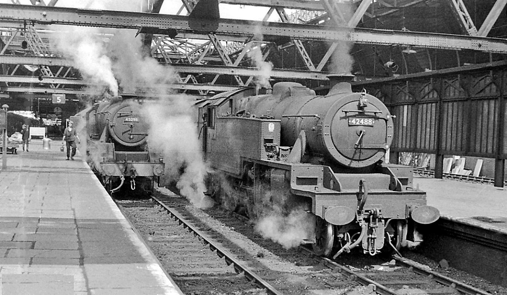 Shrewsbury Station, south end with trains. View northward on Platform 5, towards Crewe, Chester etc. The train on the left, headed by Stanier 5MT 4-6-0 No. 45298, is the 12.00 to Swansea (Victoria) via the Central Wales line. Stanier 4P 2-6-4T No. 42488 is at Platform 6. Shrewsbury was an important and busy junction of several main lines:- London Paddington - Birmingham Snow Hill - Chester; Crewe - Hereford - Newport (from which the Central Wales line diverged at Craven Arms); to Welshpool, Machynlleth, Aberystwyth and Pwllheli; also the Severn Valley line to Hartlebury via Bridgnorth, and to Stafford via Wellington.